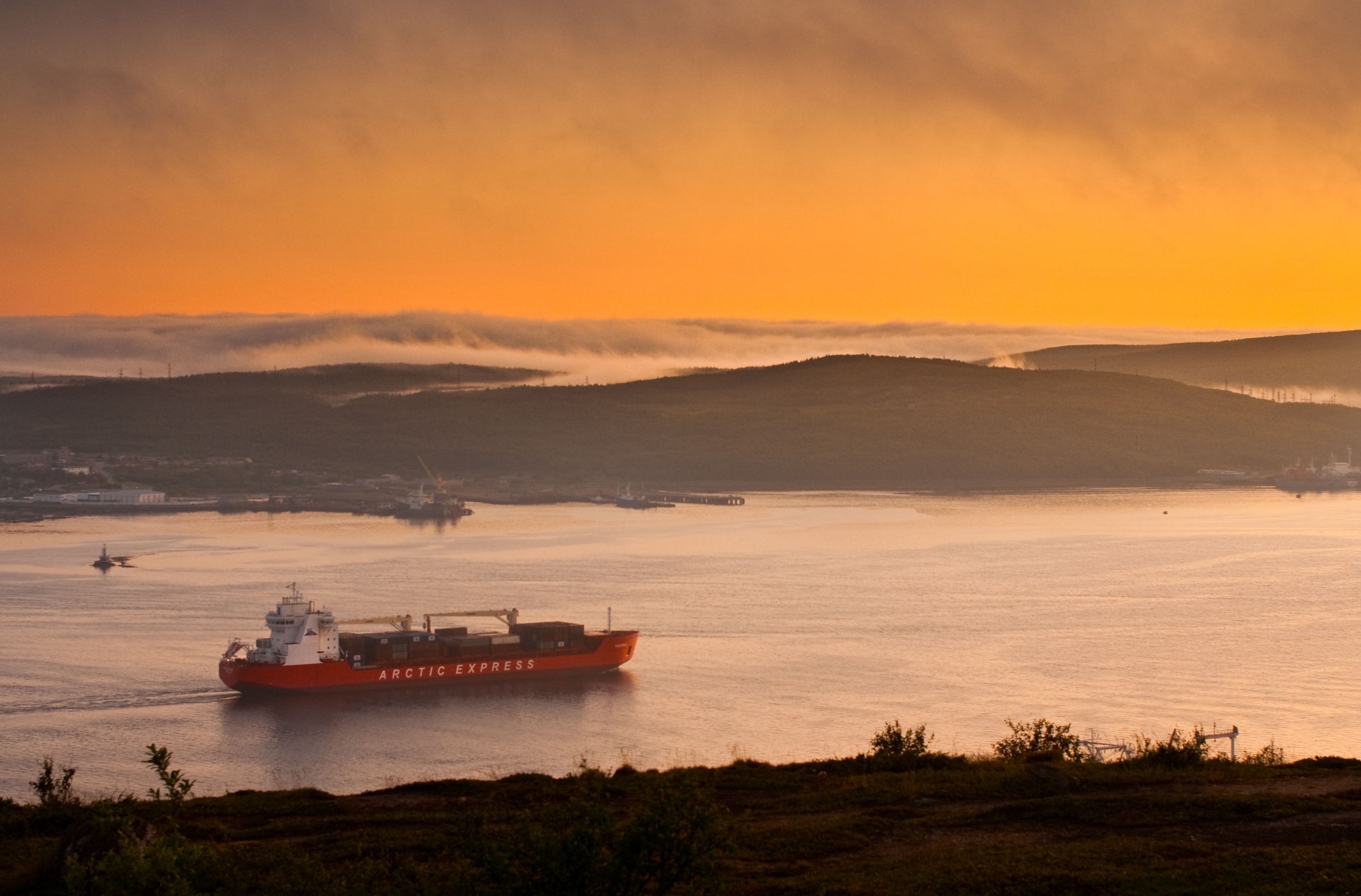 3:22 Am. Containder ship Arctic Express gliding from the terminal through Kola Bay to Barents Sea.